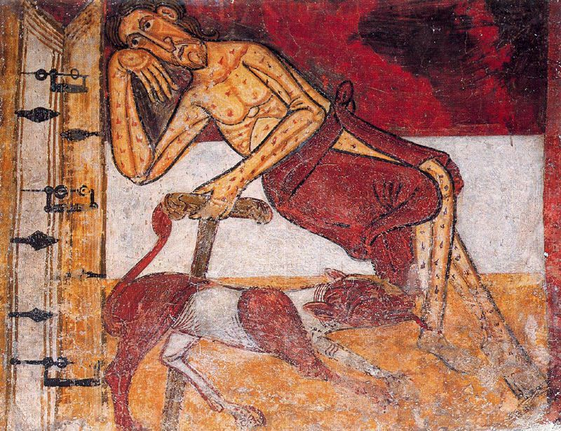 Lazarus waiting at the door of Dives, roman fresco at Saint Climent de Taüll church, now at Barcelona Museu Nacional d'Art de Catalunya